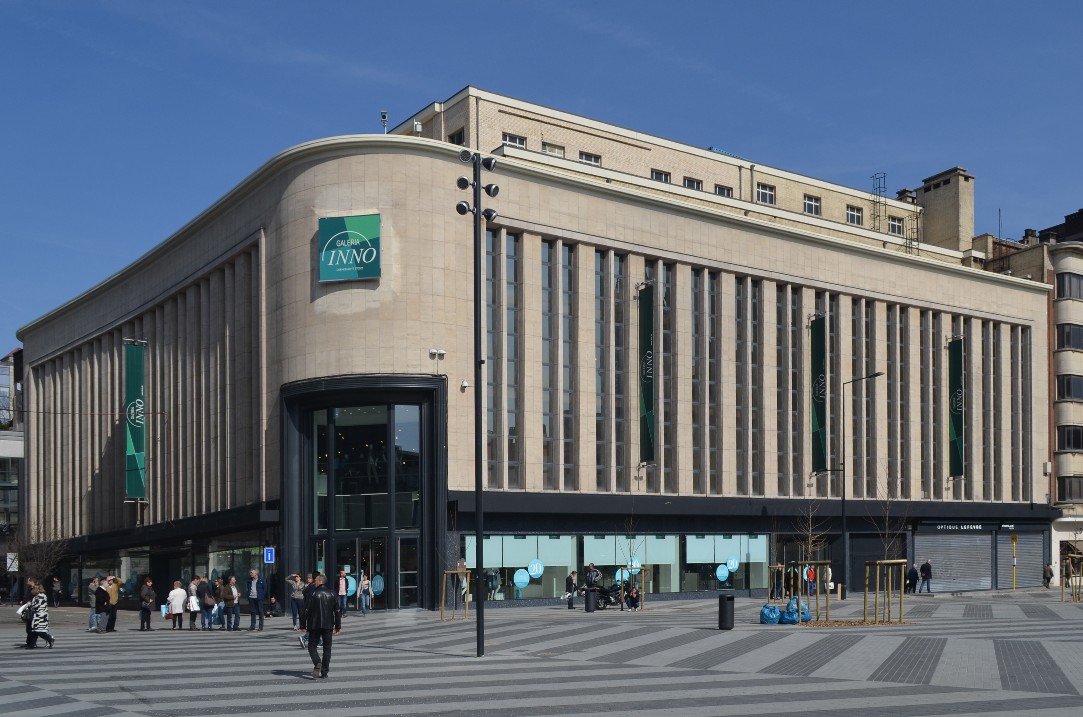 Charleroi - Galeria Inno department store (former À l'Innovation) build in 1951 by Jean-Marie Plumier end André Dautzenberg.